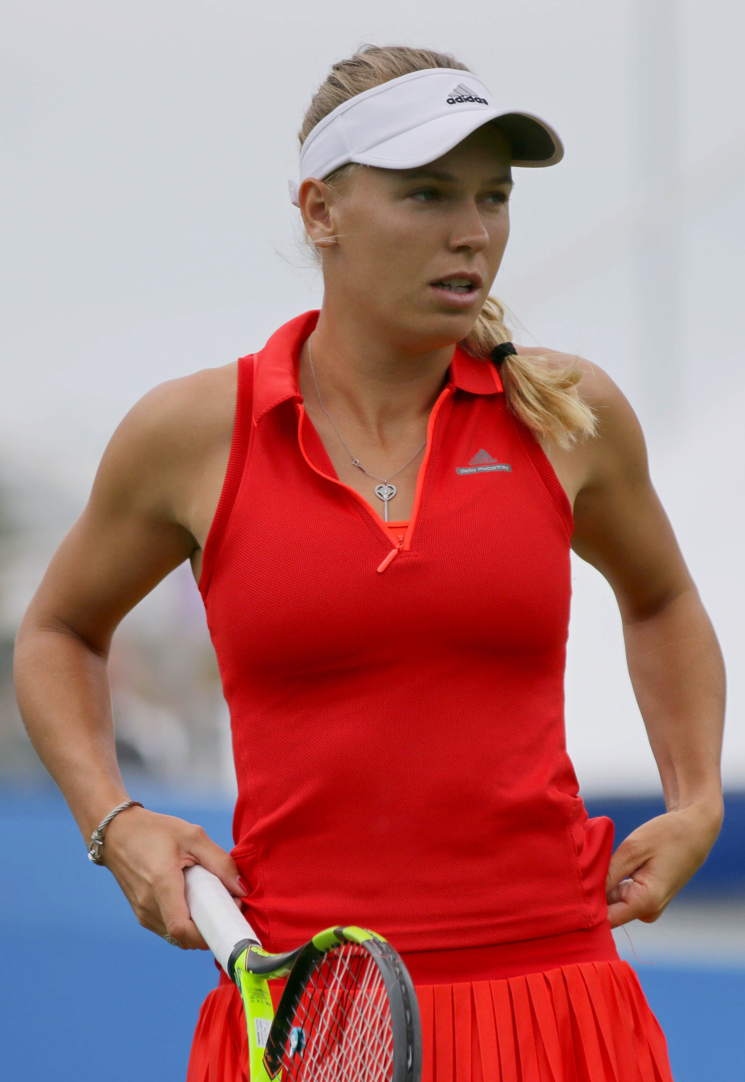 Aegon International Women's Final 2017 Pliscova v Wozniacki-146.jpg